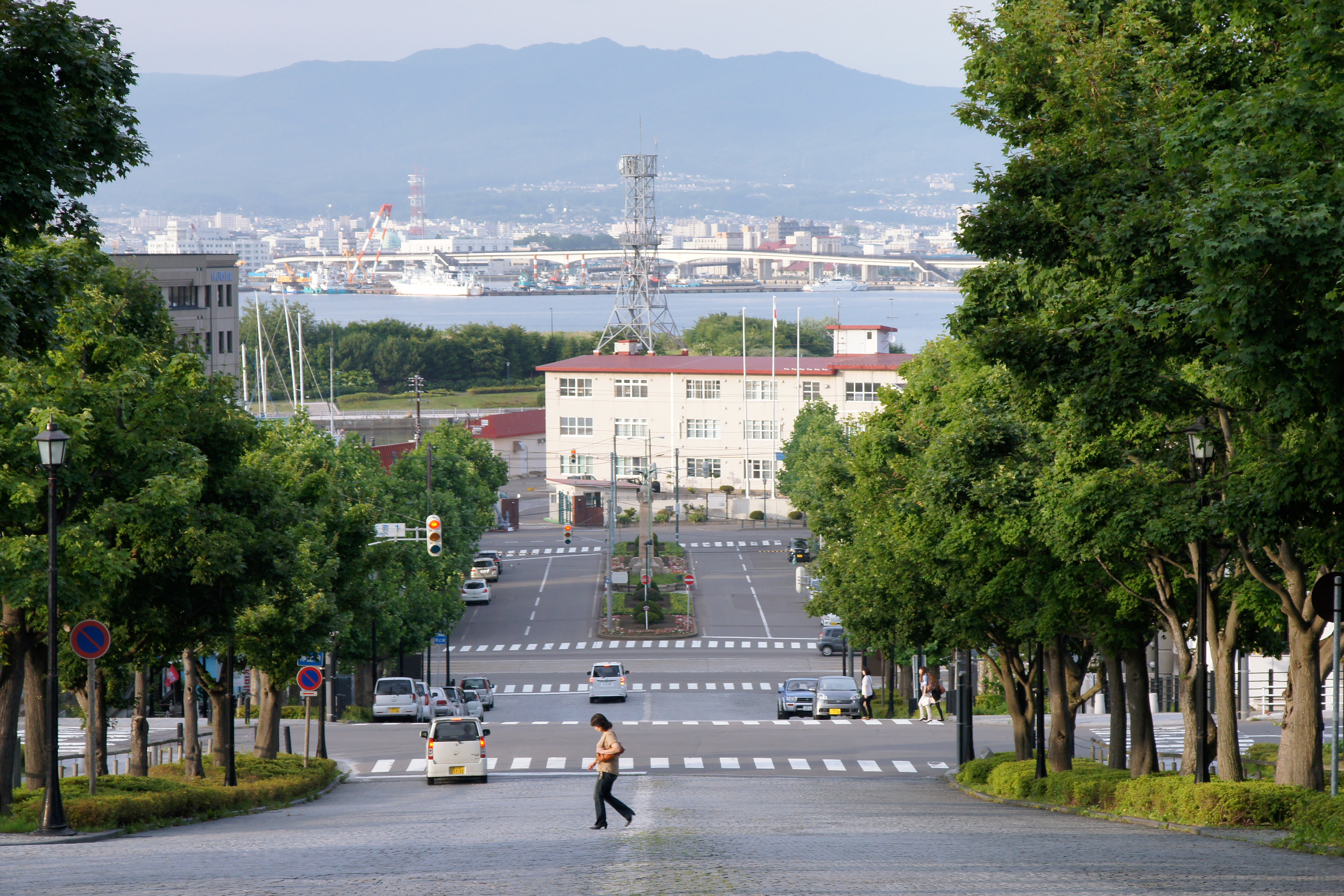 Motoi-zaka_Srope, Motomachi, Hakodate, Hokkaido prefecture, Japan